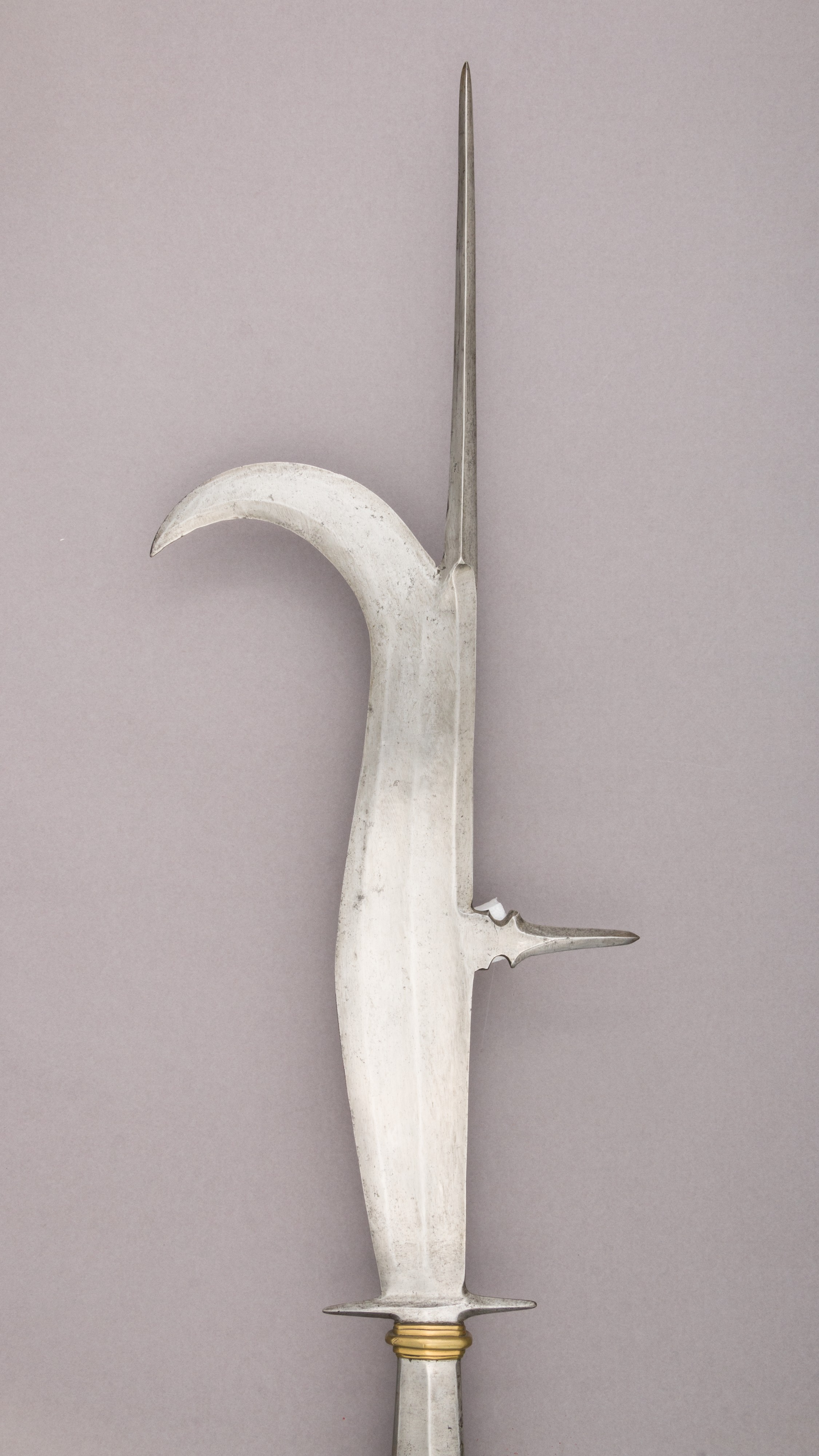 Italian; Guisarme; Shafted Weapons